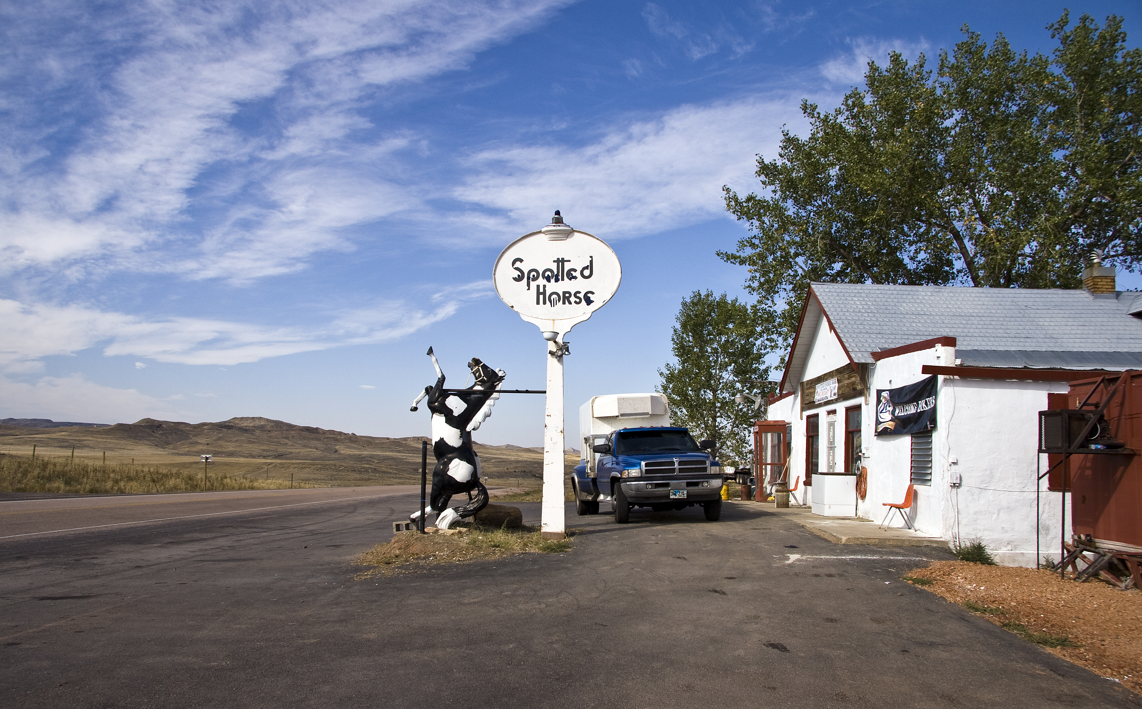 Spotted Horse, Campbell County, Wyoming, USA (most of the town is shown)